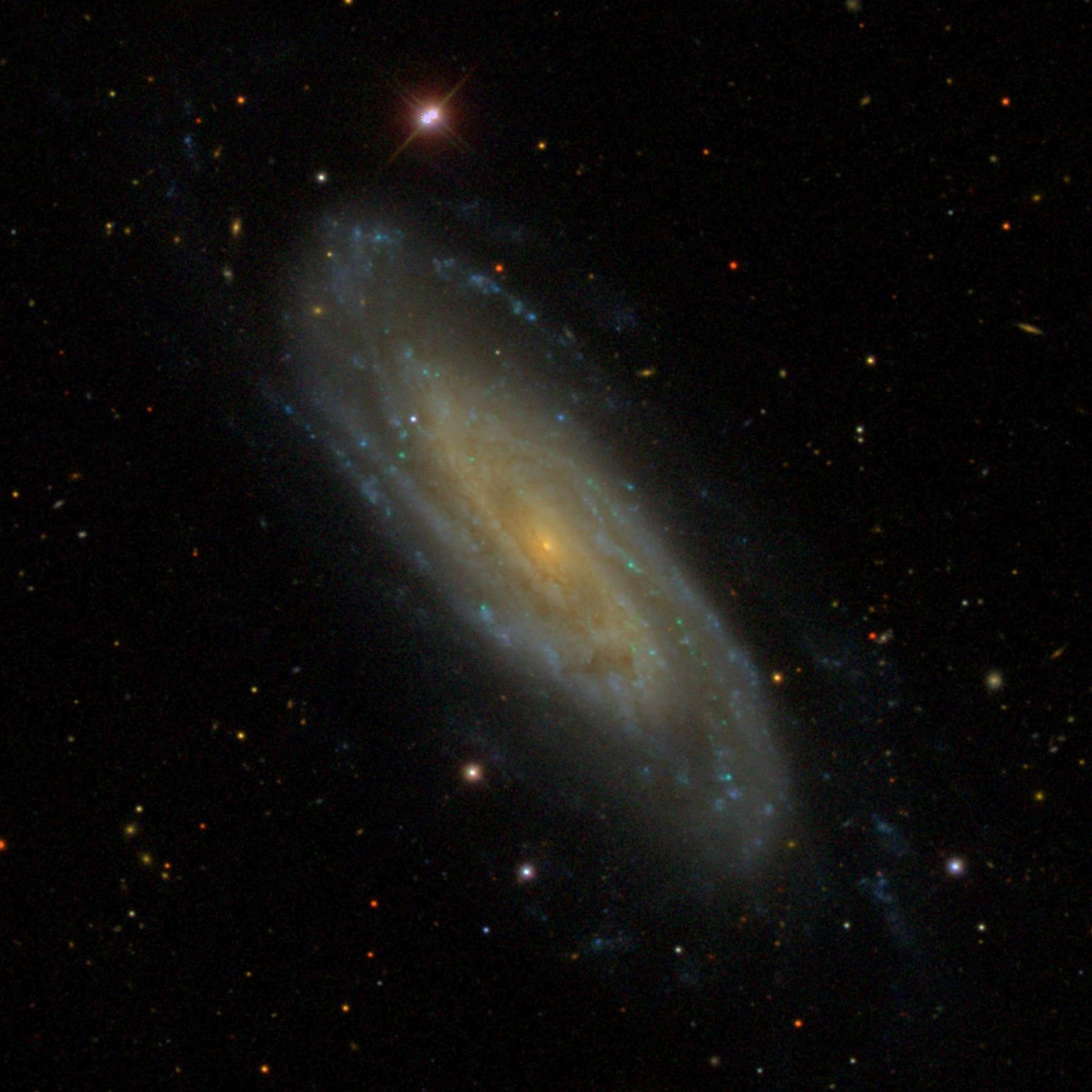 Angle of view: 9' × 9' (0.3" per pixel), north is up.